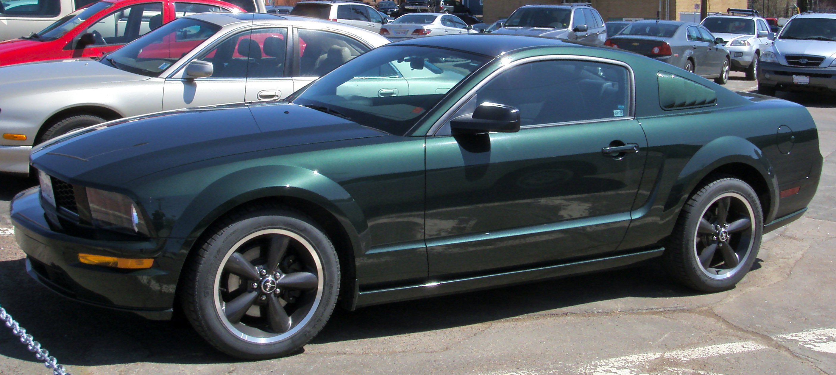 2008 Ford Mustang Bullitt photographed in Moncton, New Brunswick, Canada.